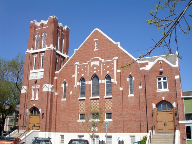 Grace Westminster United Church (1928), on the corner of 10th Street East and Eastlake Avenue, in Nutana, Saskatoon, Saskatchewan, Canada.